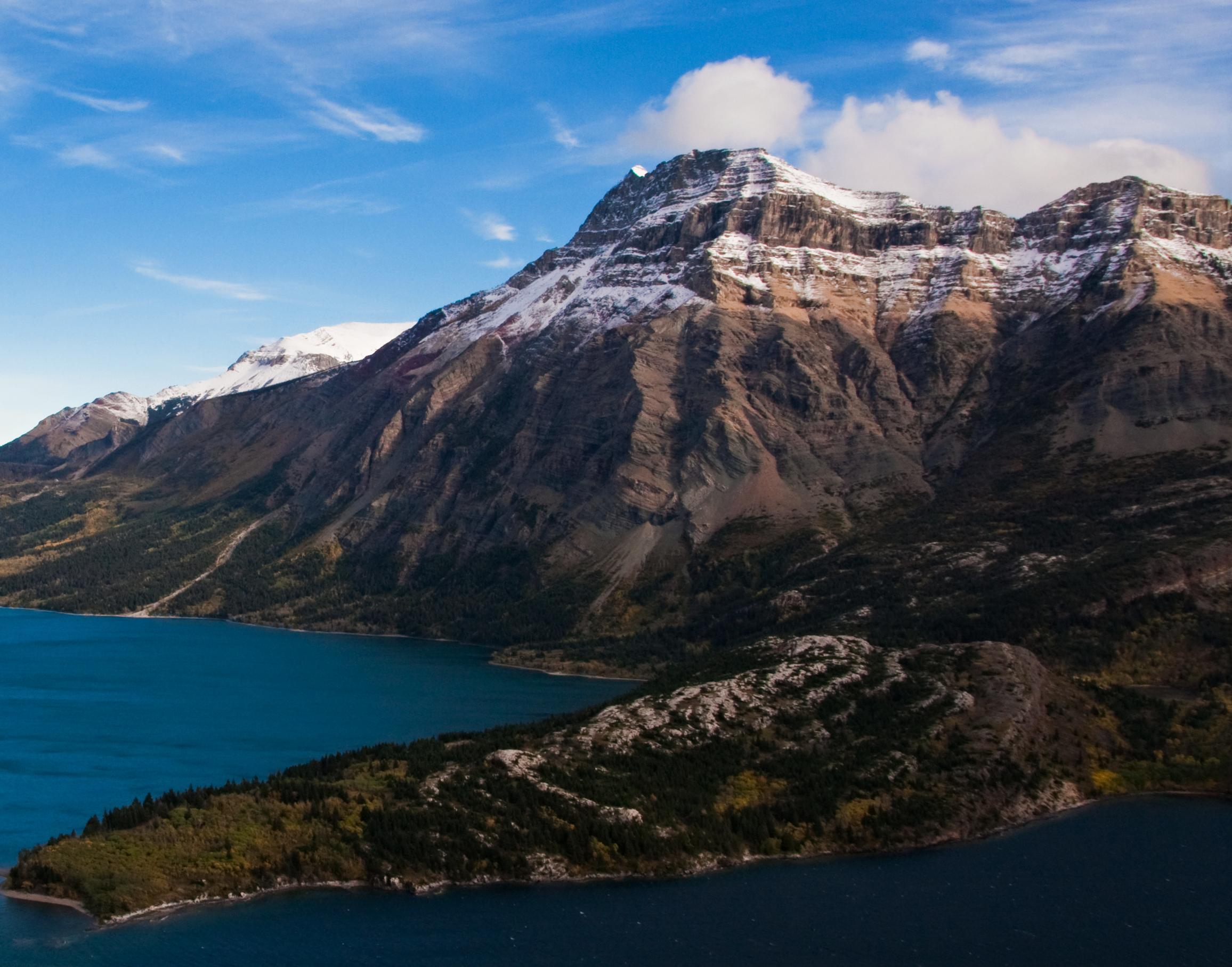 Vimy Peak taken from Bear Hump . Waterton Lakes National Park, Alberta Canada